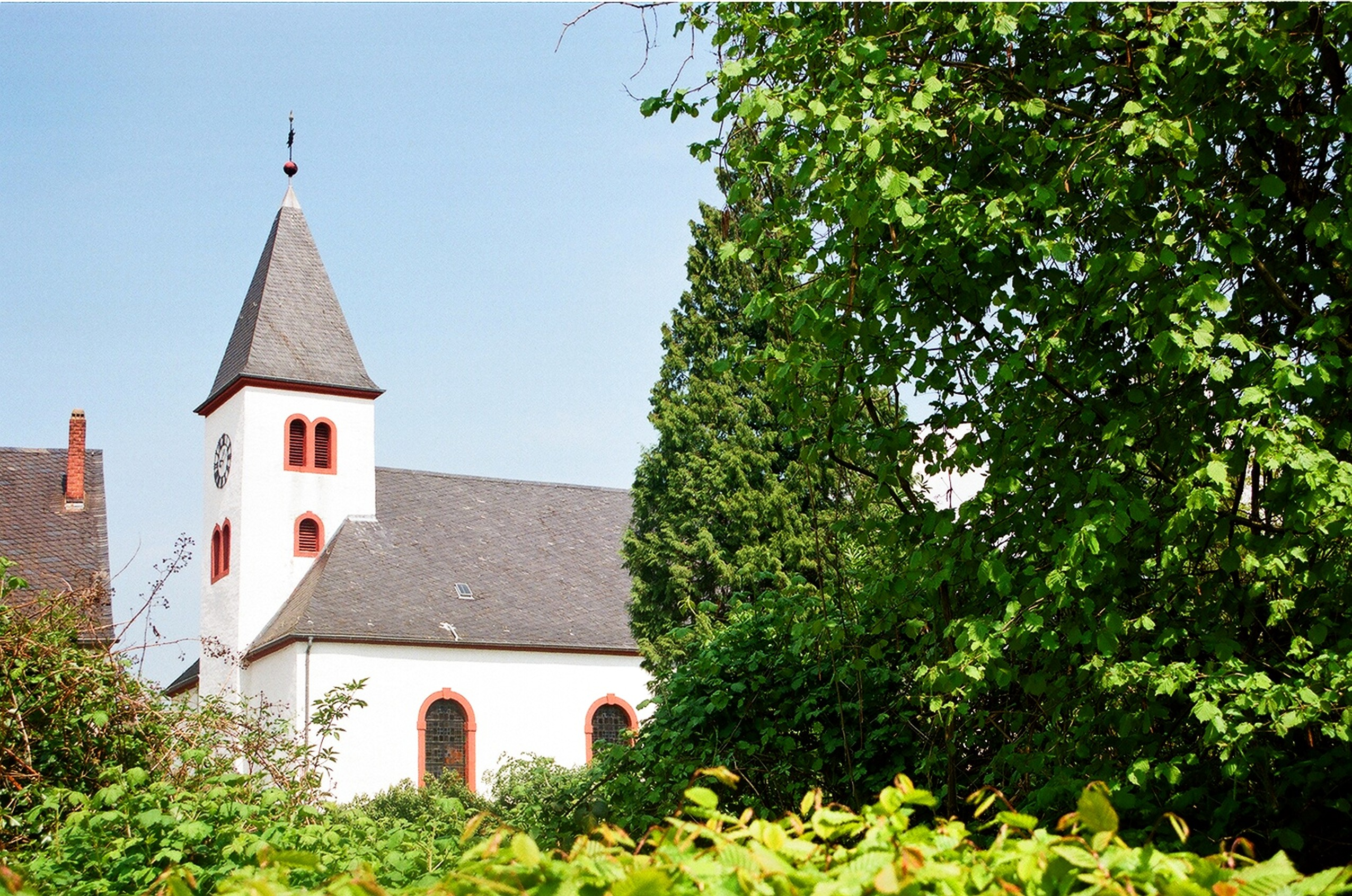 Nennig (Perl), the village church